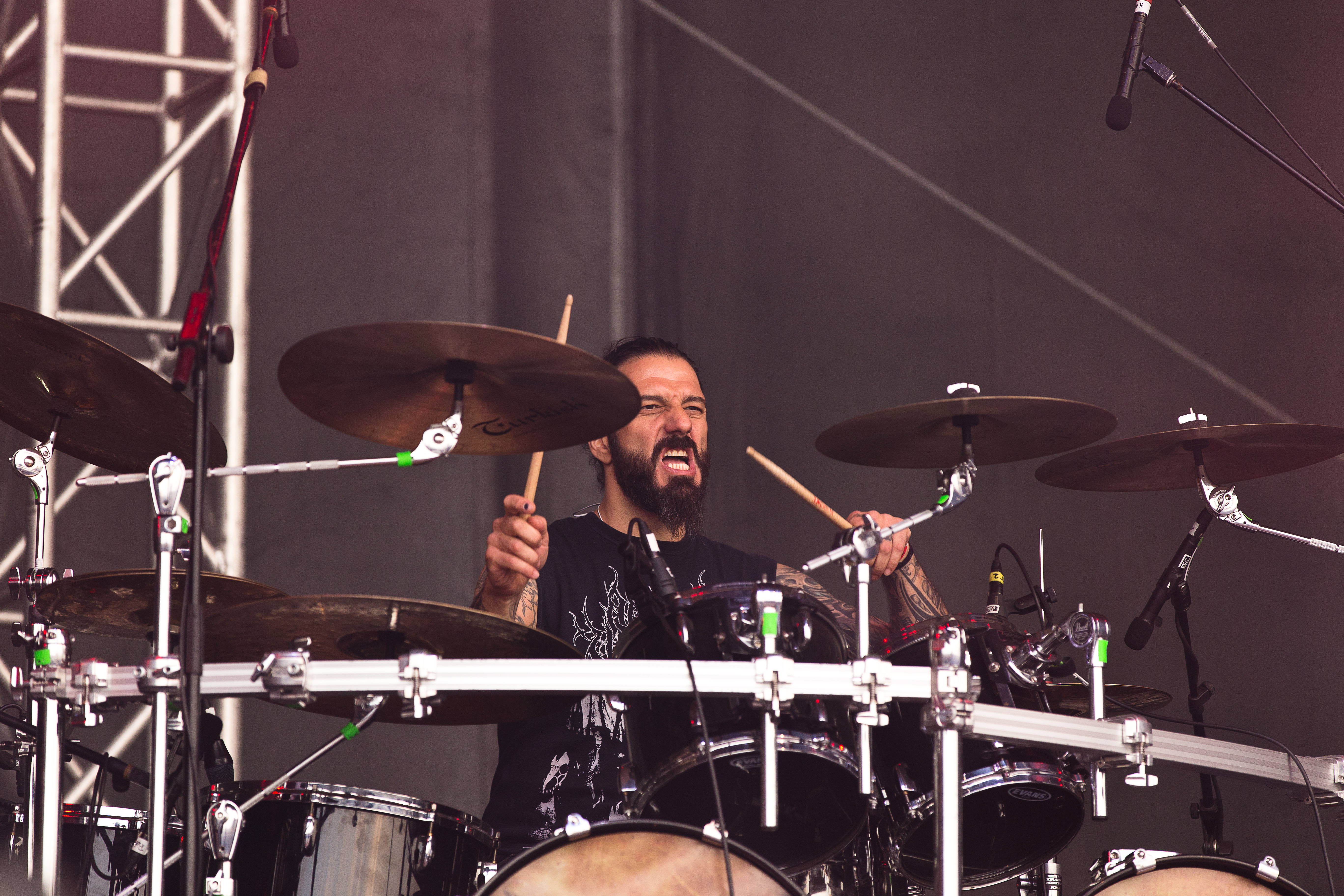 The Greek metal band Rotting Christ at the Party.San Open Air 2015 in Obermehler-Schlotheim/Germany.